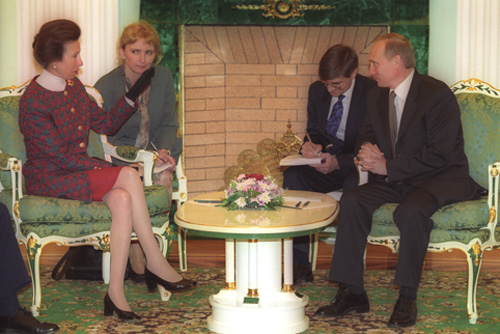 THE KREMLIN, MOSCOW. President Vladimir Putin meeting Princess Anne of Britain.